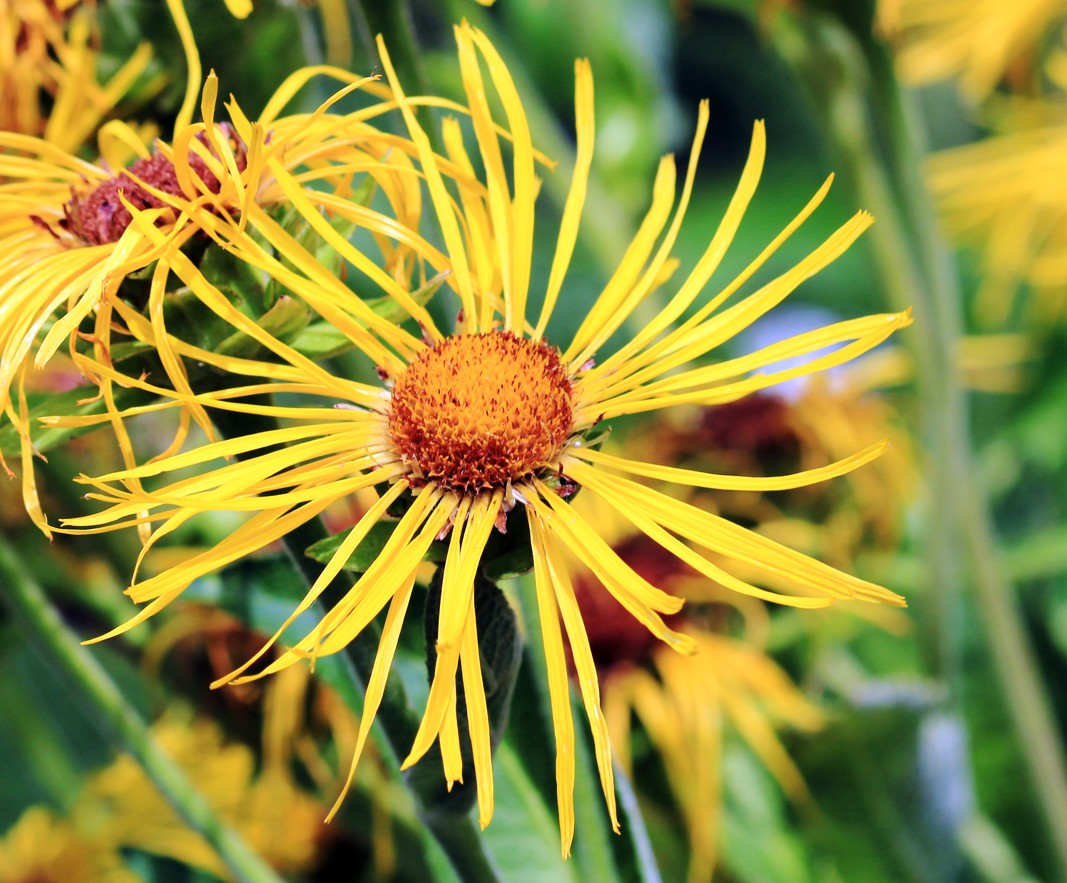 Flower of plant Elecampane, Inula helenium from Botanical Garden of Charles University in Prague, Czech Republic